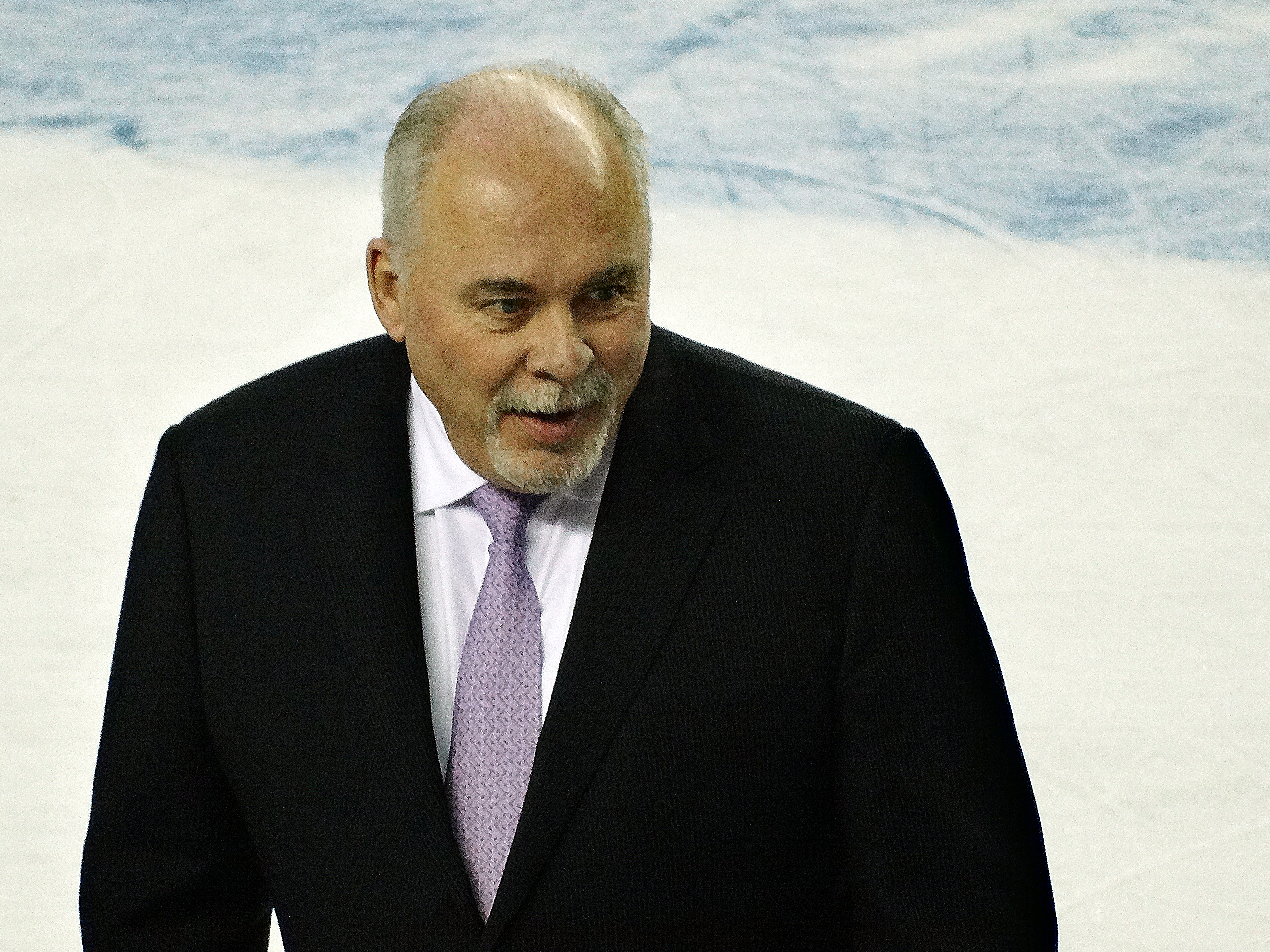 David Branch has served as the Commissioner of the Ontario Hockey League (OHL) since 1979, and as the President of the Canadian Hockey League since 1996. The CHL / NHL Top Prospects game at Scotiabank Saddledome on January 15, 2014 in Calgary, Alberta, Canada. Team Orr defeated Team Cherry 4-3.